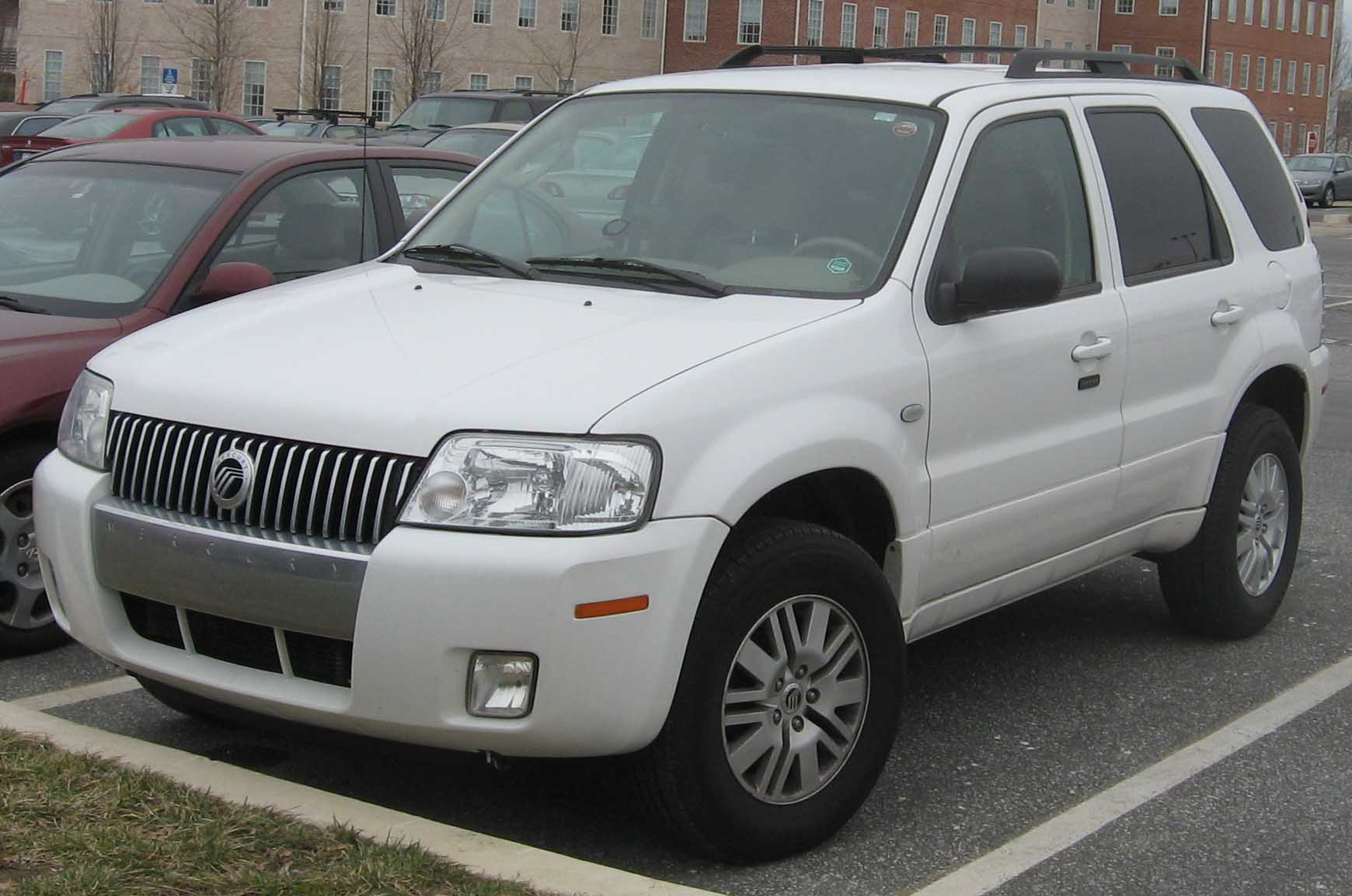 2005-2007 Mercury Mariner photographed in College Park, Maryland, USA.